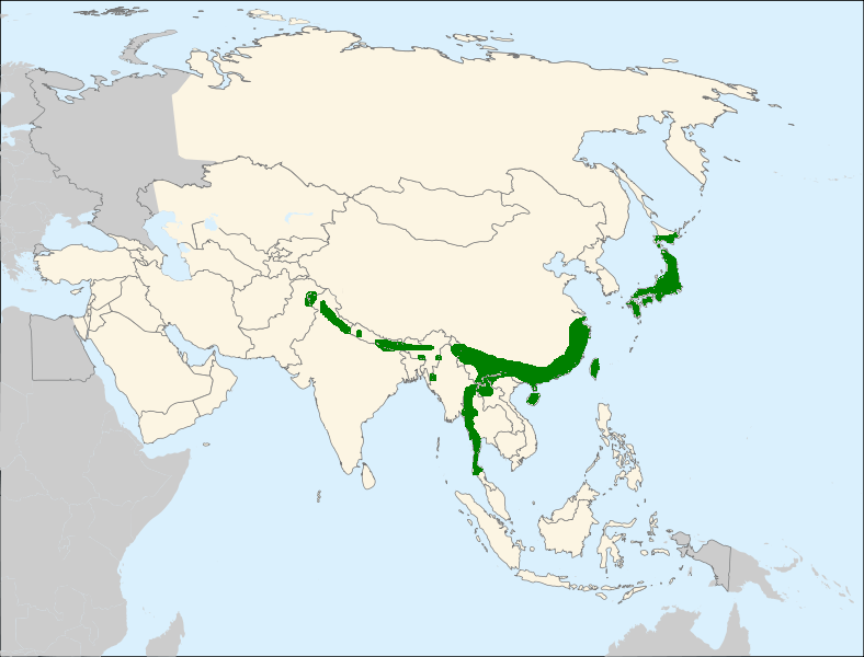 Area of Spizaetus nipalensis. Self-made, based on J. Ferguson-Lees, D. A. Christie: Raptors of the World. Christopher Helm, London 2001. ISBN 0-7136-8026-1